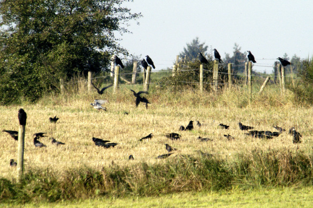 Corvus frugilegus from Commanster, Belgian High Ardennes .